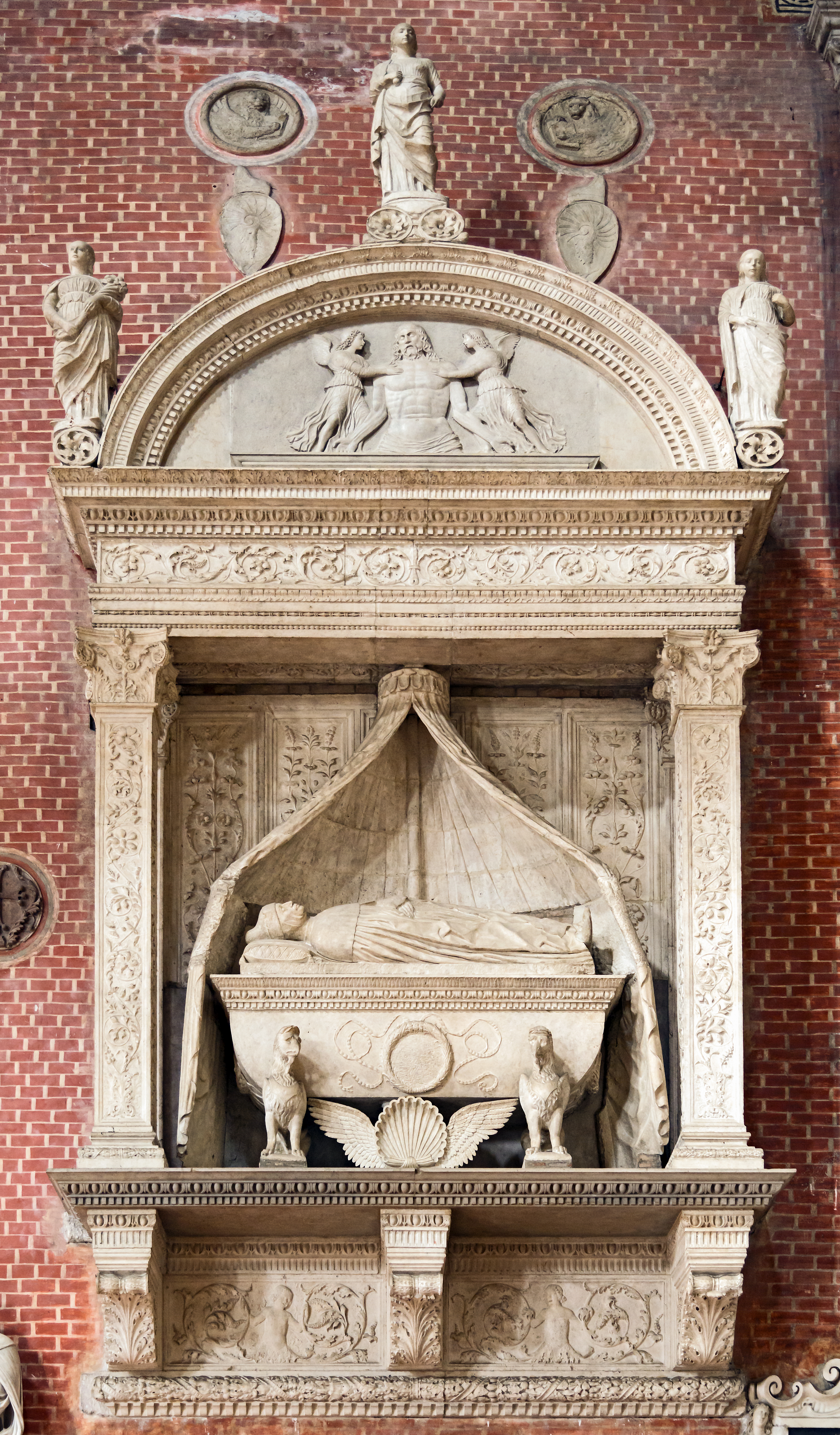 Santi Giovanni e Paolo in Venice. The monument to the doge Pasquale Malipiero (died 1462) by Pietro Lombardo. In the lunette is a Pietà. The three statues represent the Justice, the Abundance and the Peace. In the roundels: the coats of arms and the lion of St Mark.